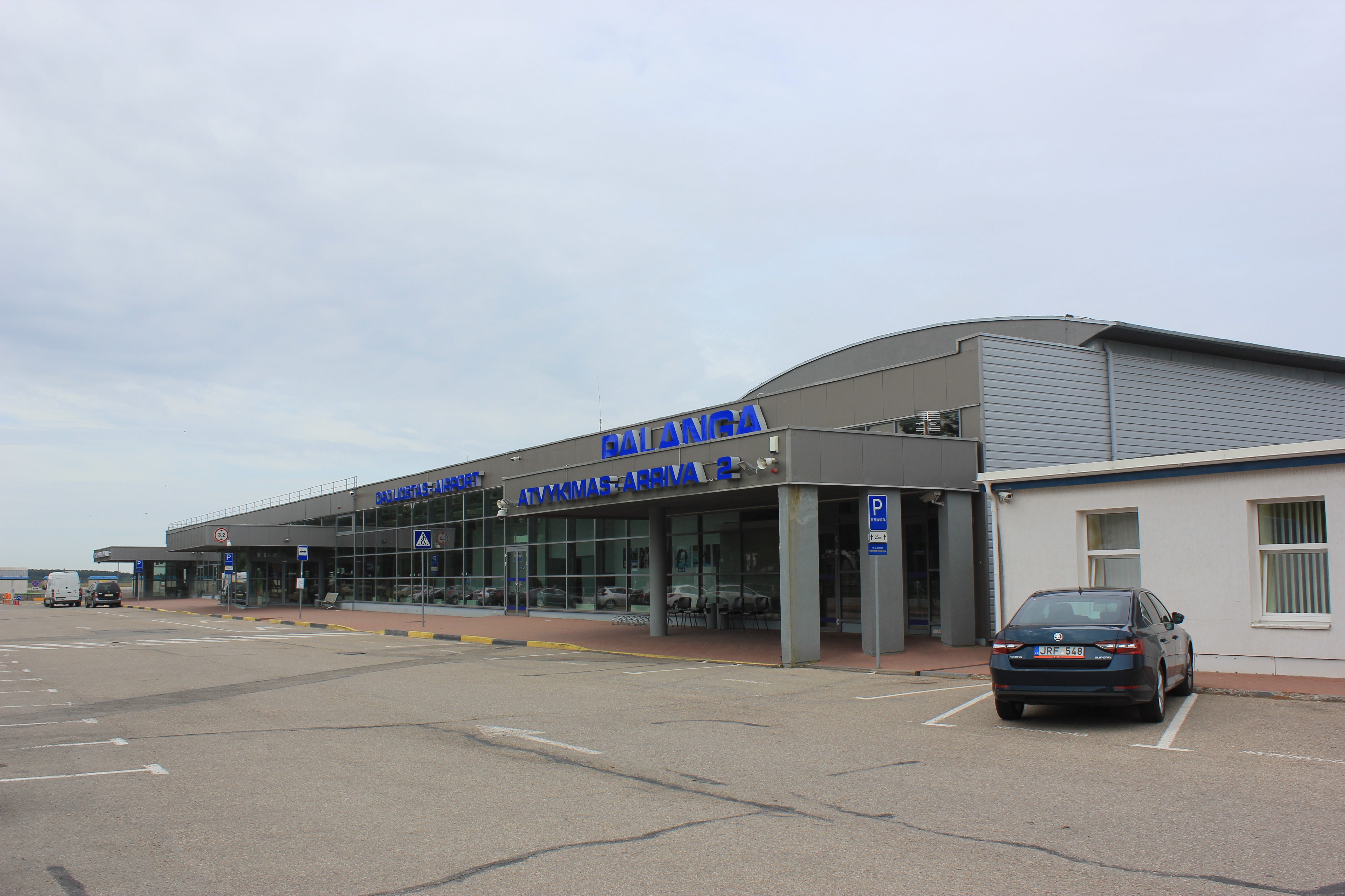 Palanga - airport